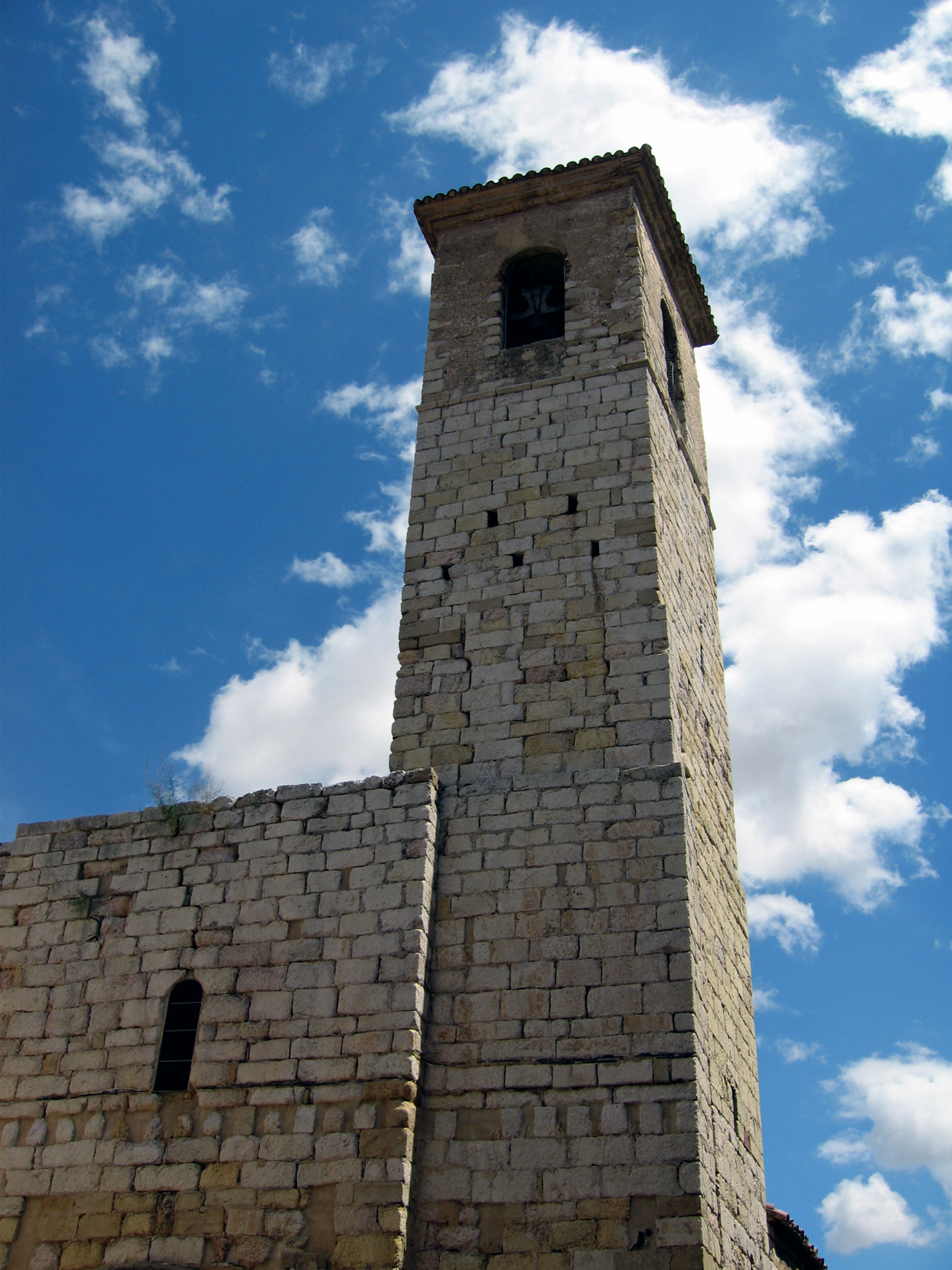 Church of Sant Miquel in Montblanc in the province of Tarragona (Catalonia).